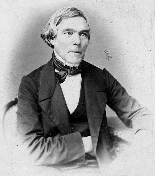 Portrait of Finnish physician and philologist Elias Lönnrot (1802-1884)